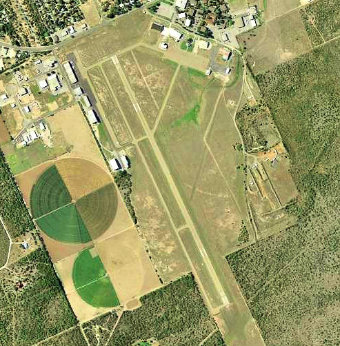 USGS digital orthophoto of Garner Field, an airport in Texas